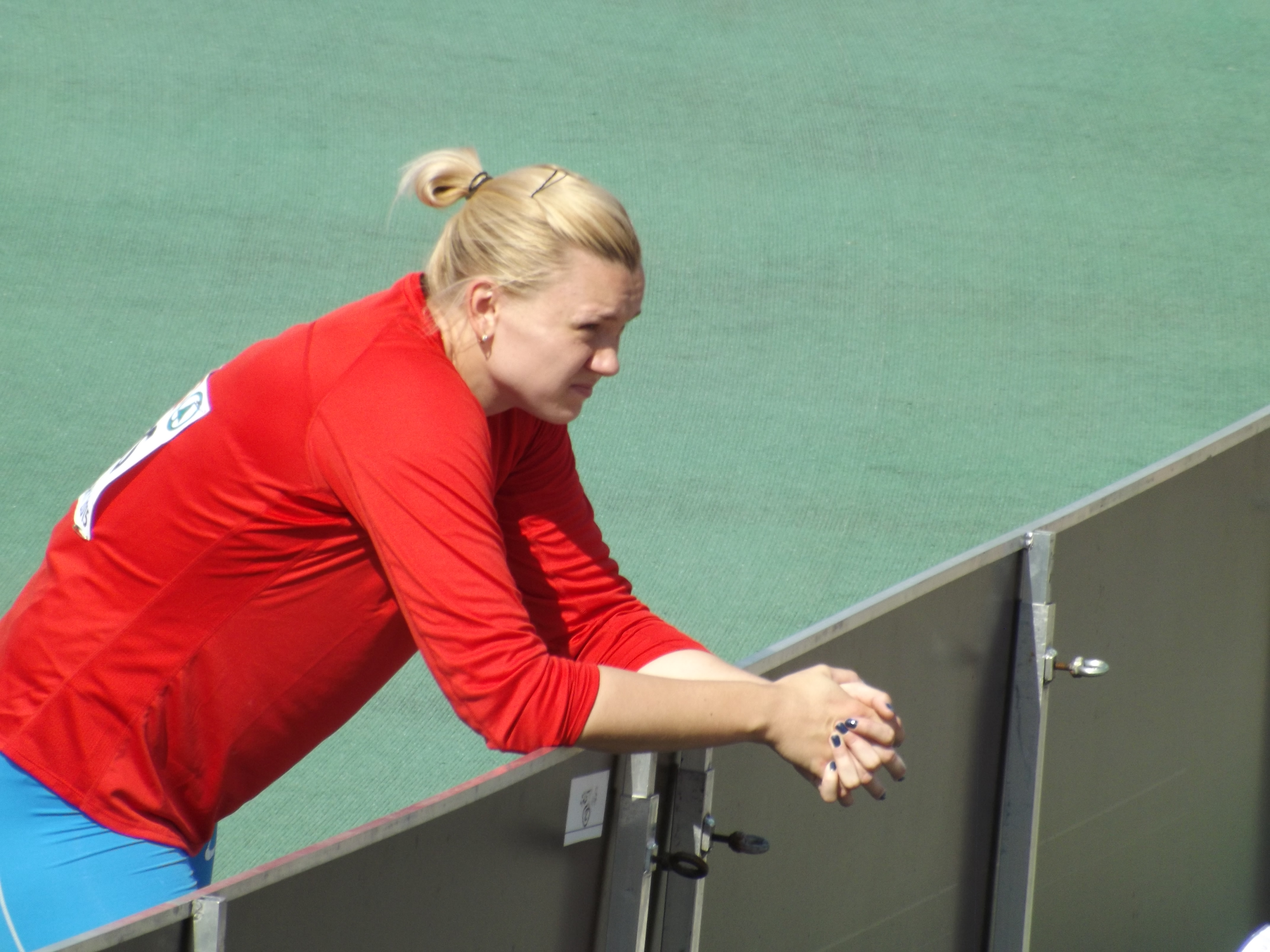 Russian discus thrower Yekaterina Strokova during 2015 European Team Champioships